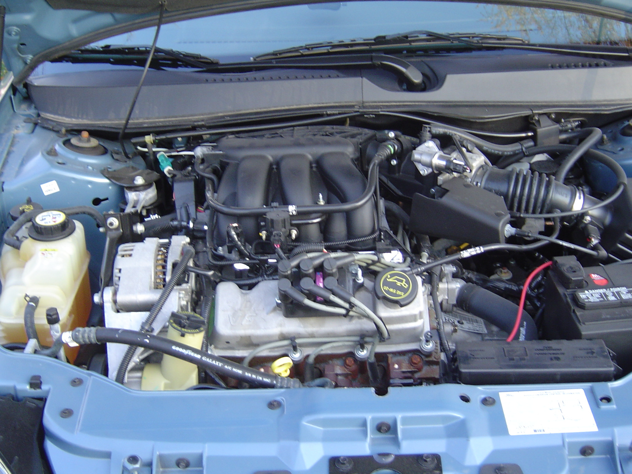 Picture is from my 2005 Ford Taurus SE, Engine is a 3.0L V6 Vulcan FFV. Photographed using a Sony CyberShot digital camera in front of my house in Illinois. Image is free for use by anyone without permission.